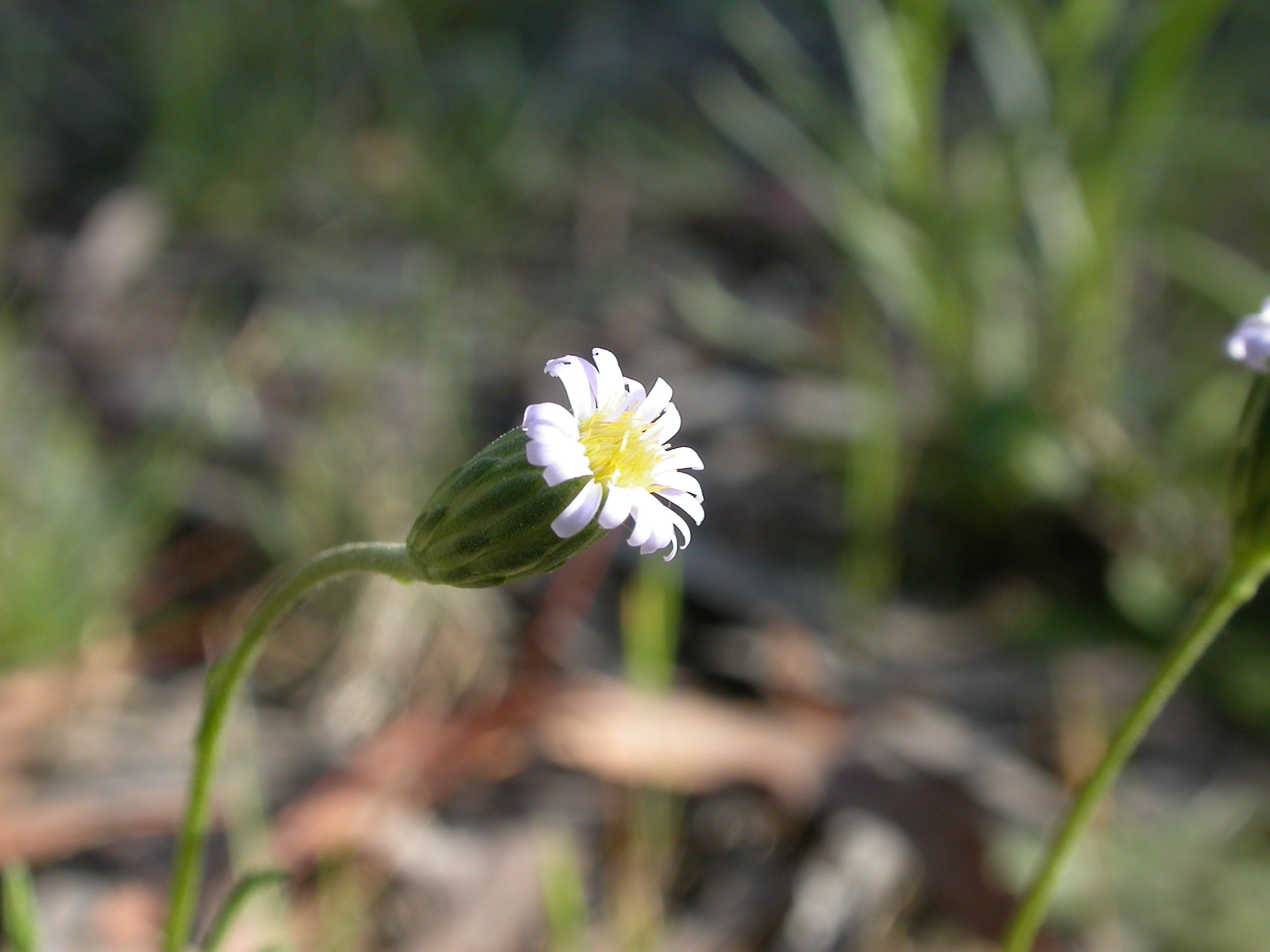 Vittadinia cuneata DC., Black Mountain, Canberra, ACT 25 October 2010